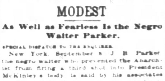 an article in the Cincinnati Enquirer 9 Sep 1901 - assassination of William McKinley